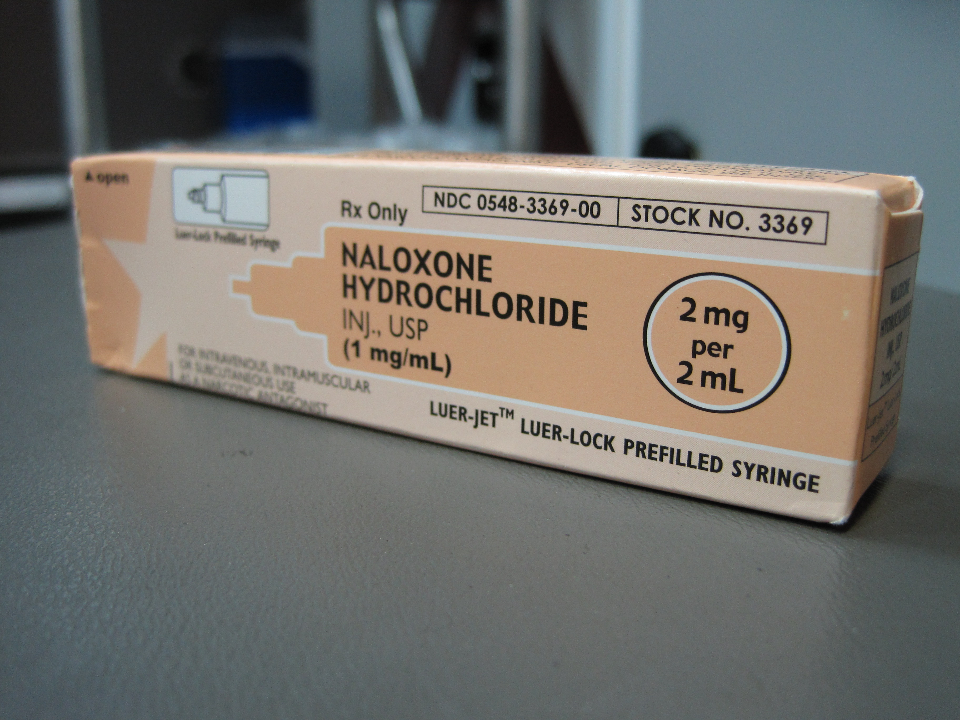 Naloxone HCl preparation, pre-filled Luer-Jet package for intravenous administration.